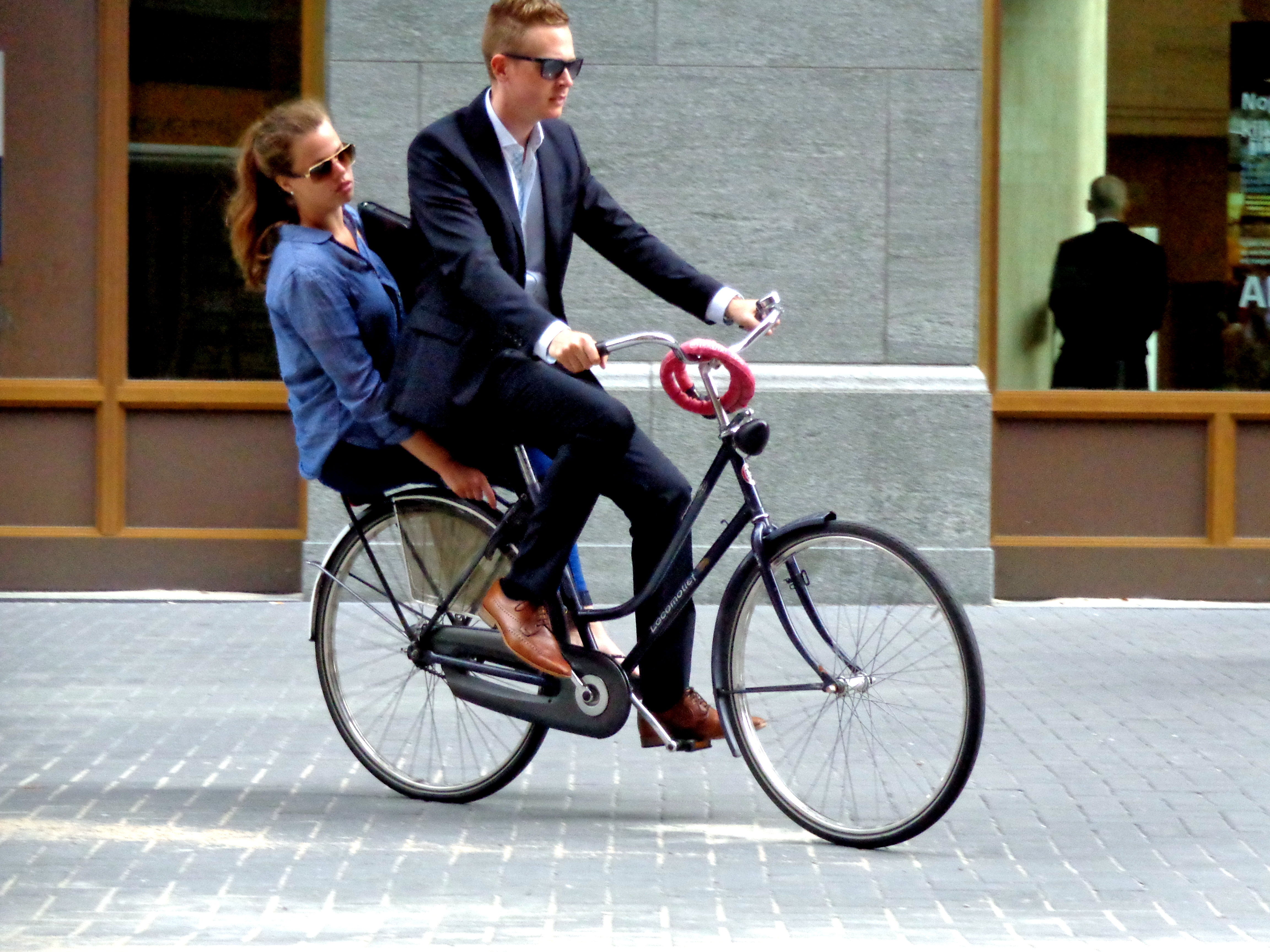 Bicycle in The Hague city-centre